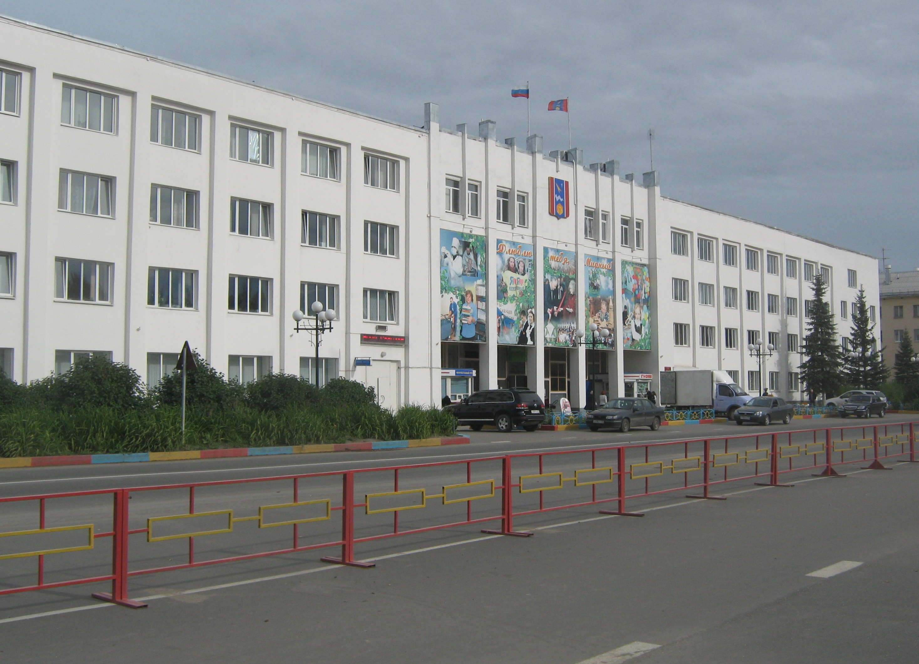 Town-administration of Mirnyj in Arhangelsk region